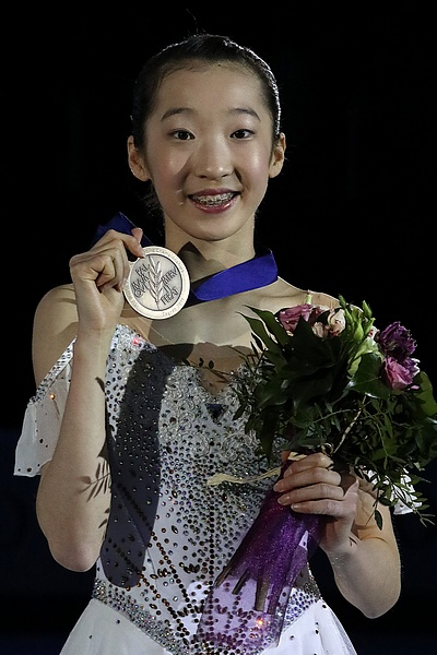 Ting Cui at the Junior World Championships 2019 - Awarding ceremony